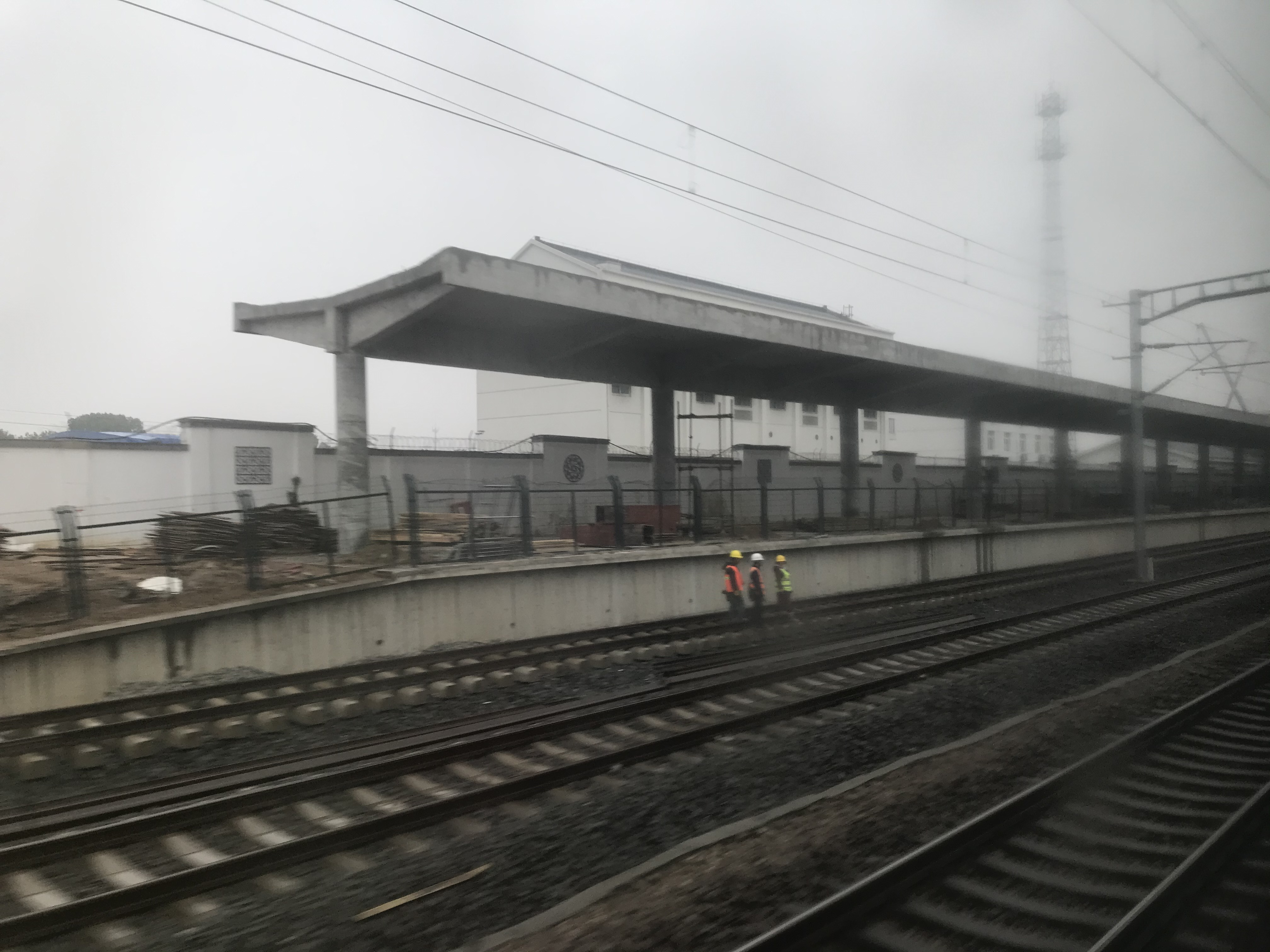 202001 Antingxi Station Platform under Construction